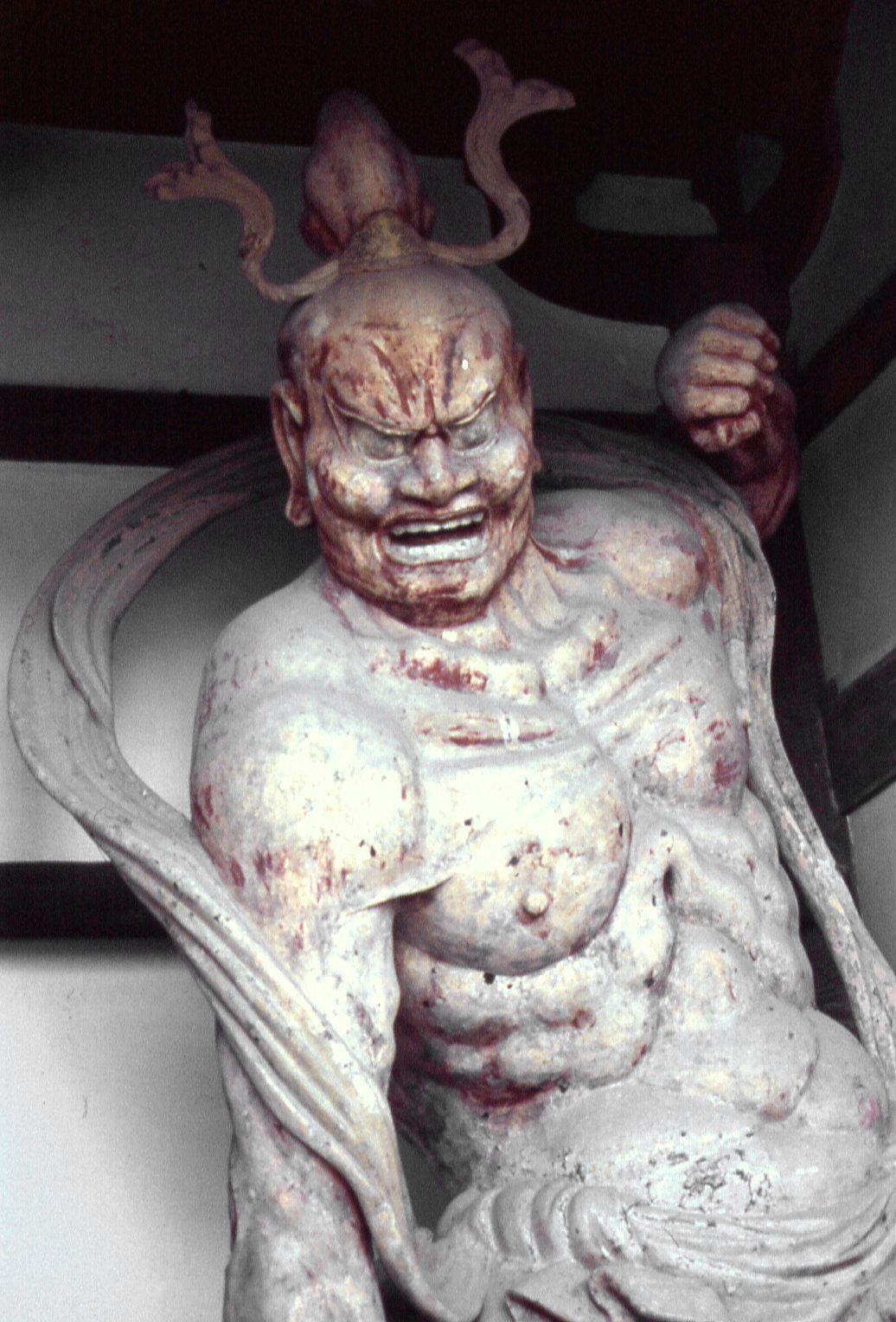 Nio in the Chumon, Horyu-ji, 711. Ikaruga